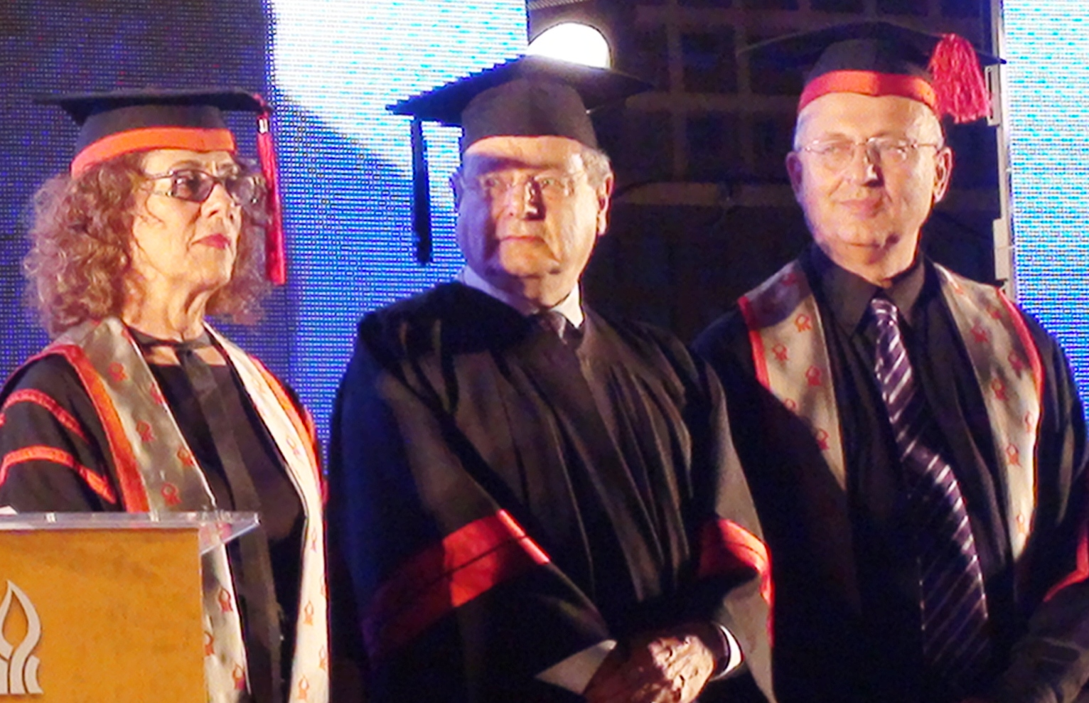 Sir Martin Gilbert is awarded hon. Doctorate of Ben Guion Uni. in Beer Sheva, Israel.